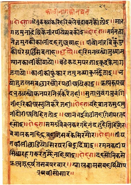 A page from Bhagavata Purana in Hindi, describing how Krishna subdues Kaliya Naag, c18th century. India.